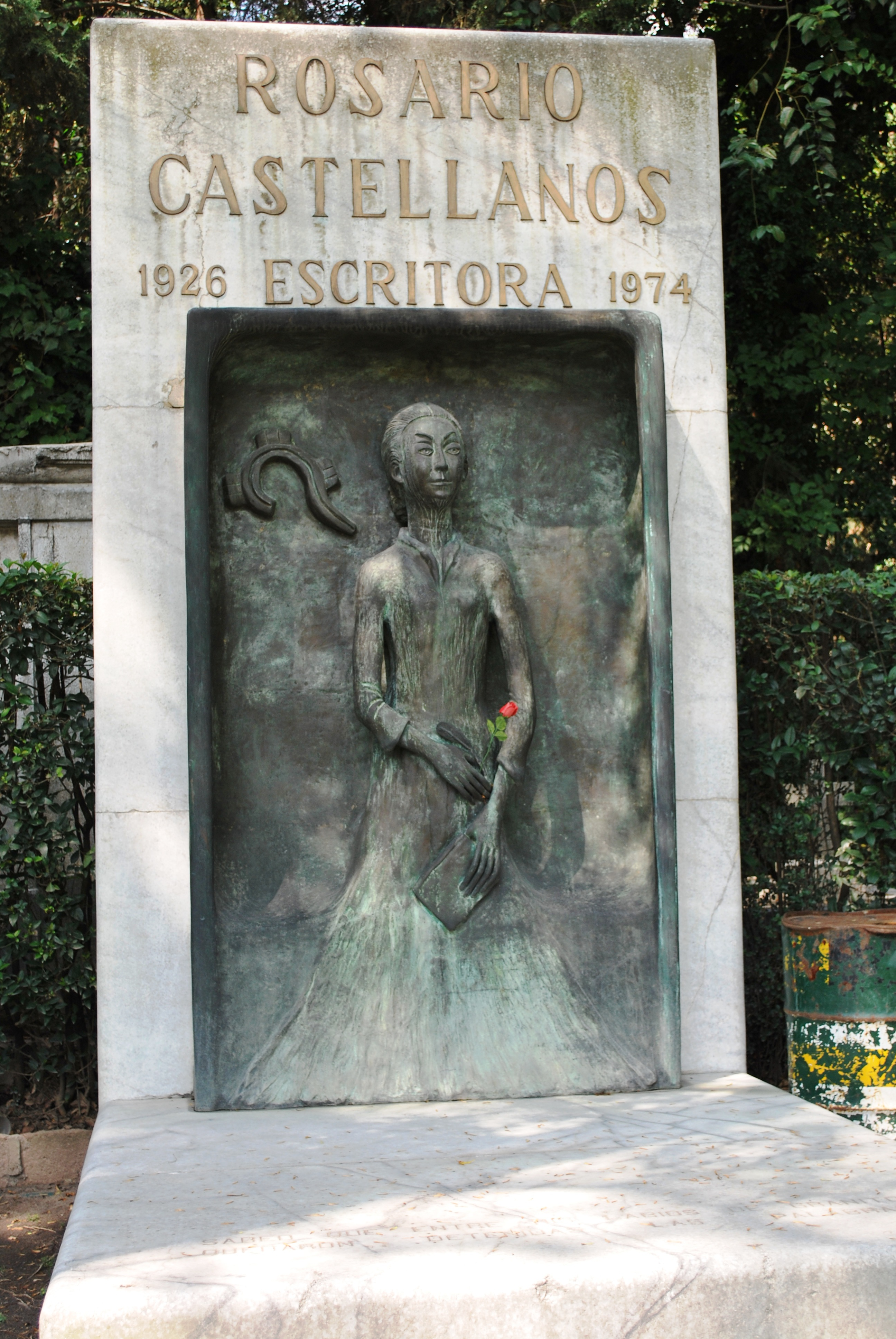 Tomb of Rosario Castellanos in the Panteon Civil de Dolores cemetery in Mexico City